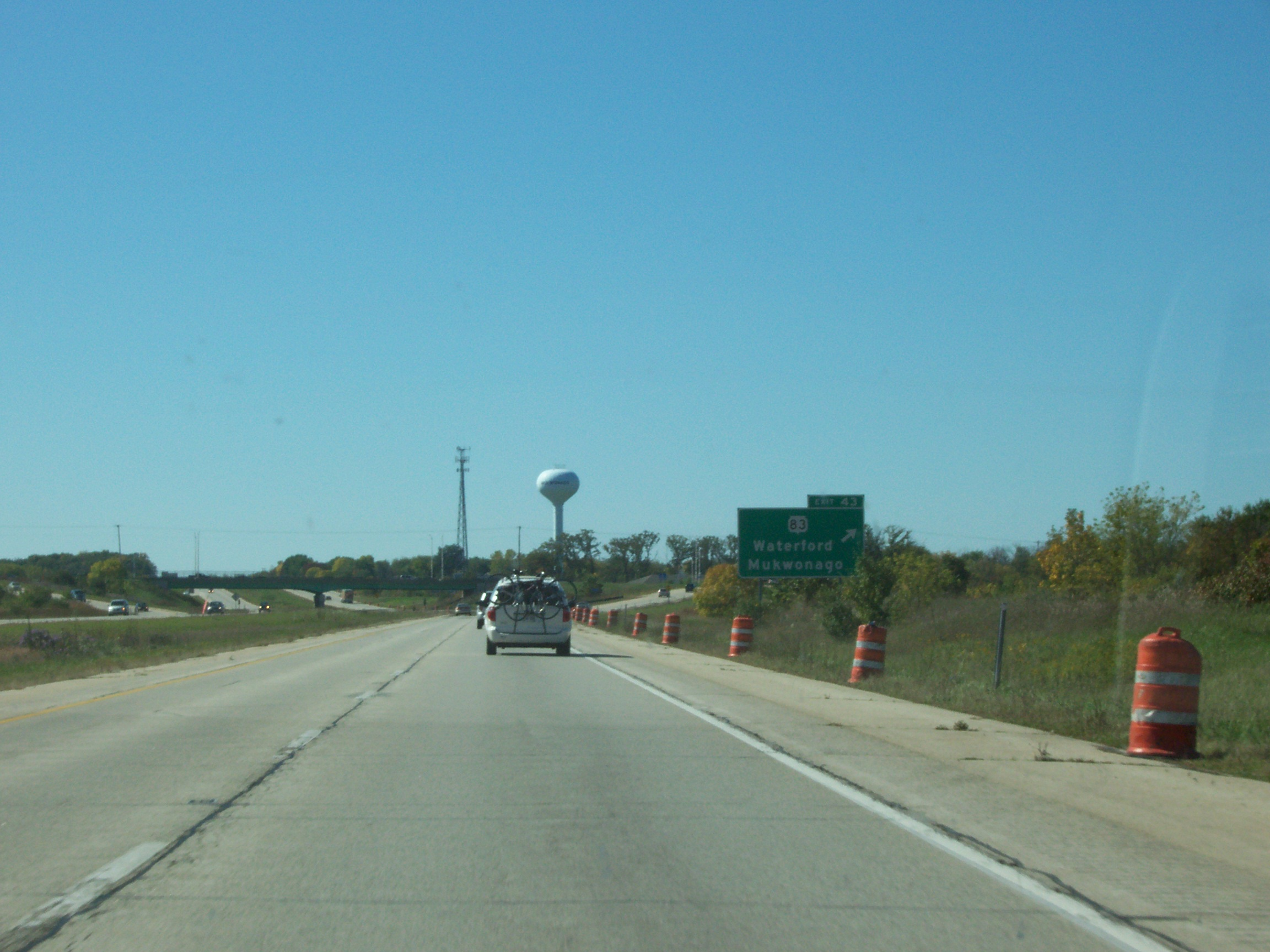 Looking southeast on the Interstate 43 at the Highway 83 (Wisconsin) exit in Mukwonago, Wisconsin. This image was taken on October 1, 2006 by User:Royalbroil. Category:Images of Wisconsin highways